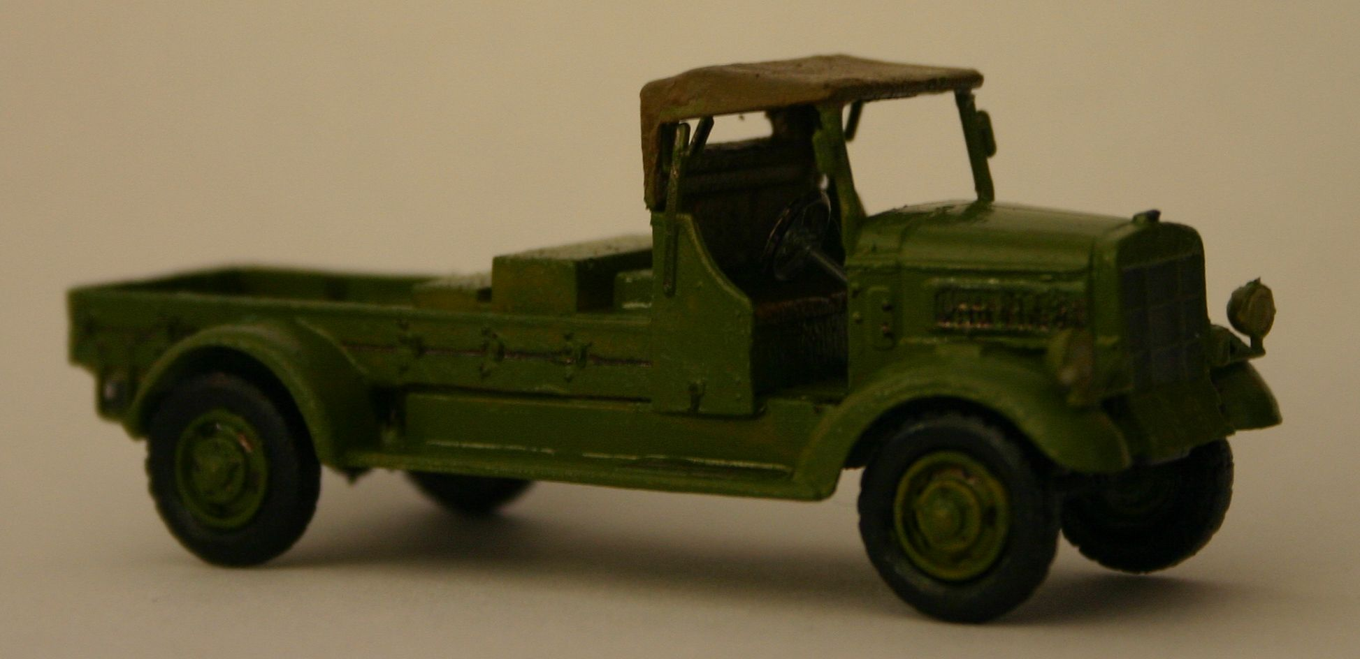 A 1:72 scale model of the Toyota KC truck as used on Japanese military airfields in late World War II, minus the airplane starting equipment. Model manufactured by Hasegawa as the "Starter Truck Toyota GB". Built by Wayne and Christo Stephenson in November 2007. Photographed by Wayne Stephenson in November 2007.